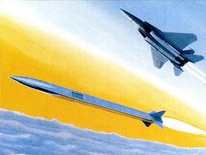 Official United States Air Force artist's concept of the HAVE DASH II air-to-air missile.